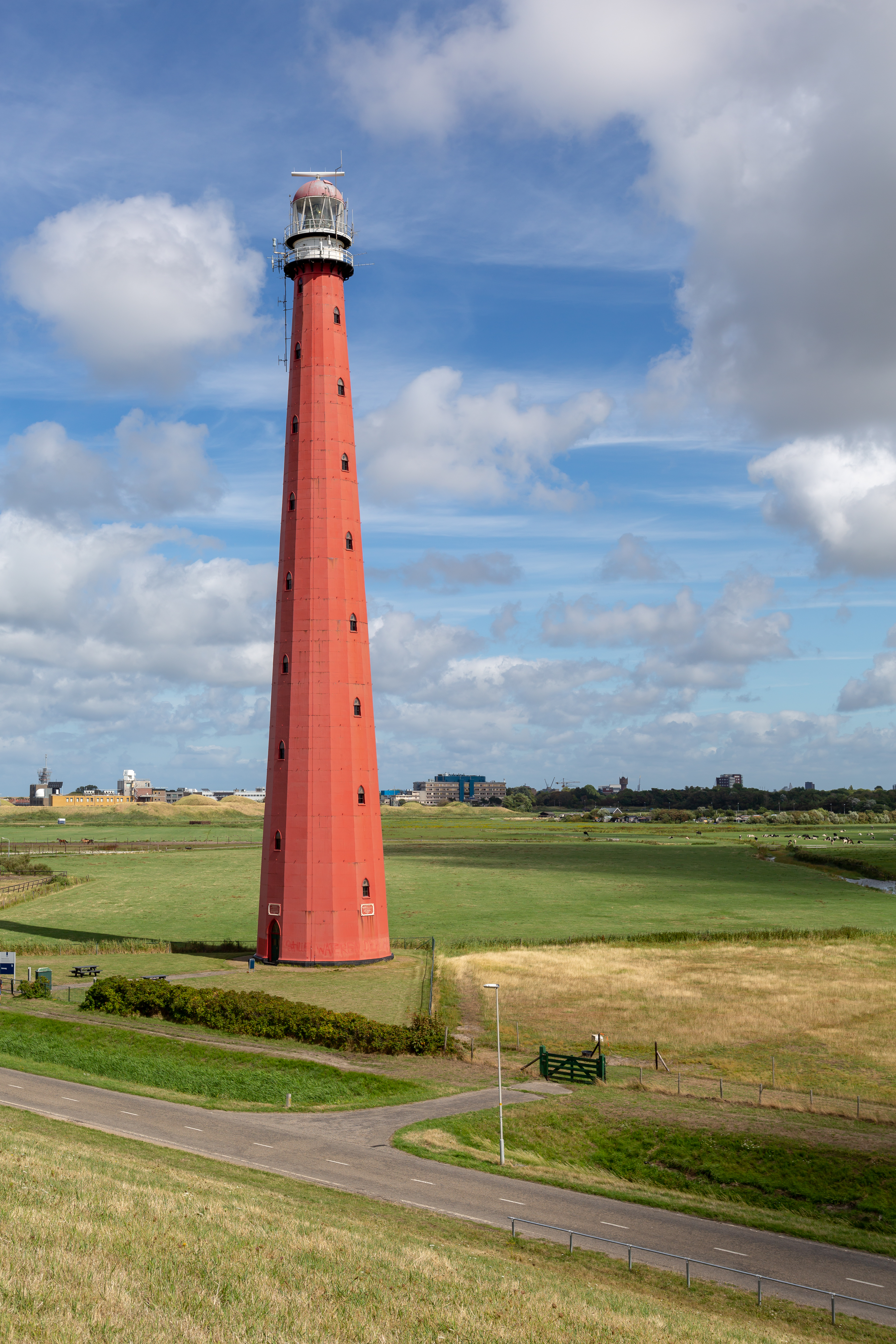 Lighthouse Lange Jaap, also known as Kijkduin Light or Den Helder Light. Located near Den Helder in the Netherlands.